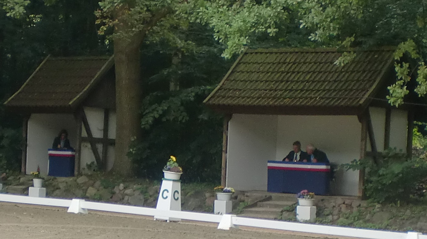 Dressage judges, Landesturnier Schleswig-Holstein / Hamburg (state championship of Schleswig-Holstein and Hamburg in Bad Segeberg, September 2010